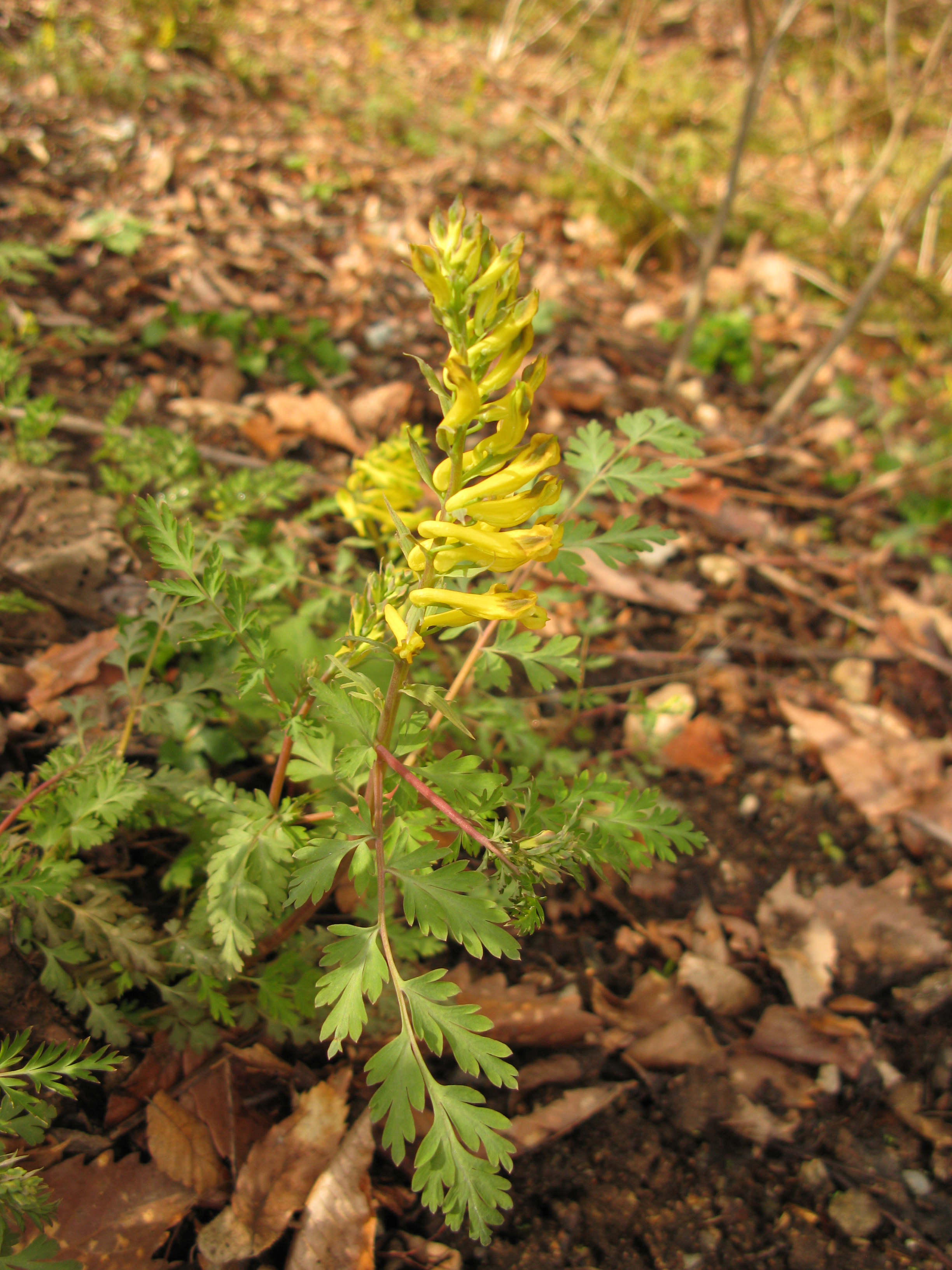 Corydalis pallida var. tenuis, Aizu area, Fukushima pref., Japan